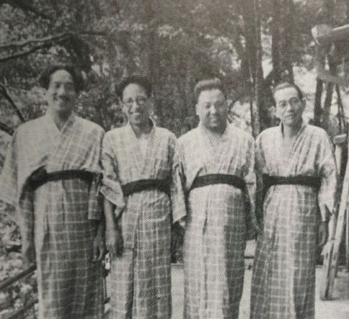 Yasujirō Ozu (小津安二郎) - Akira Fushimi (伏見晁) - Hiroshi Shimizu (清水宏) - Kōgo Noda (野田高梧) - 1928